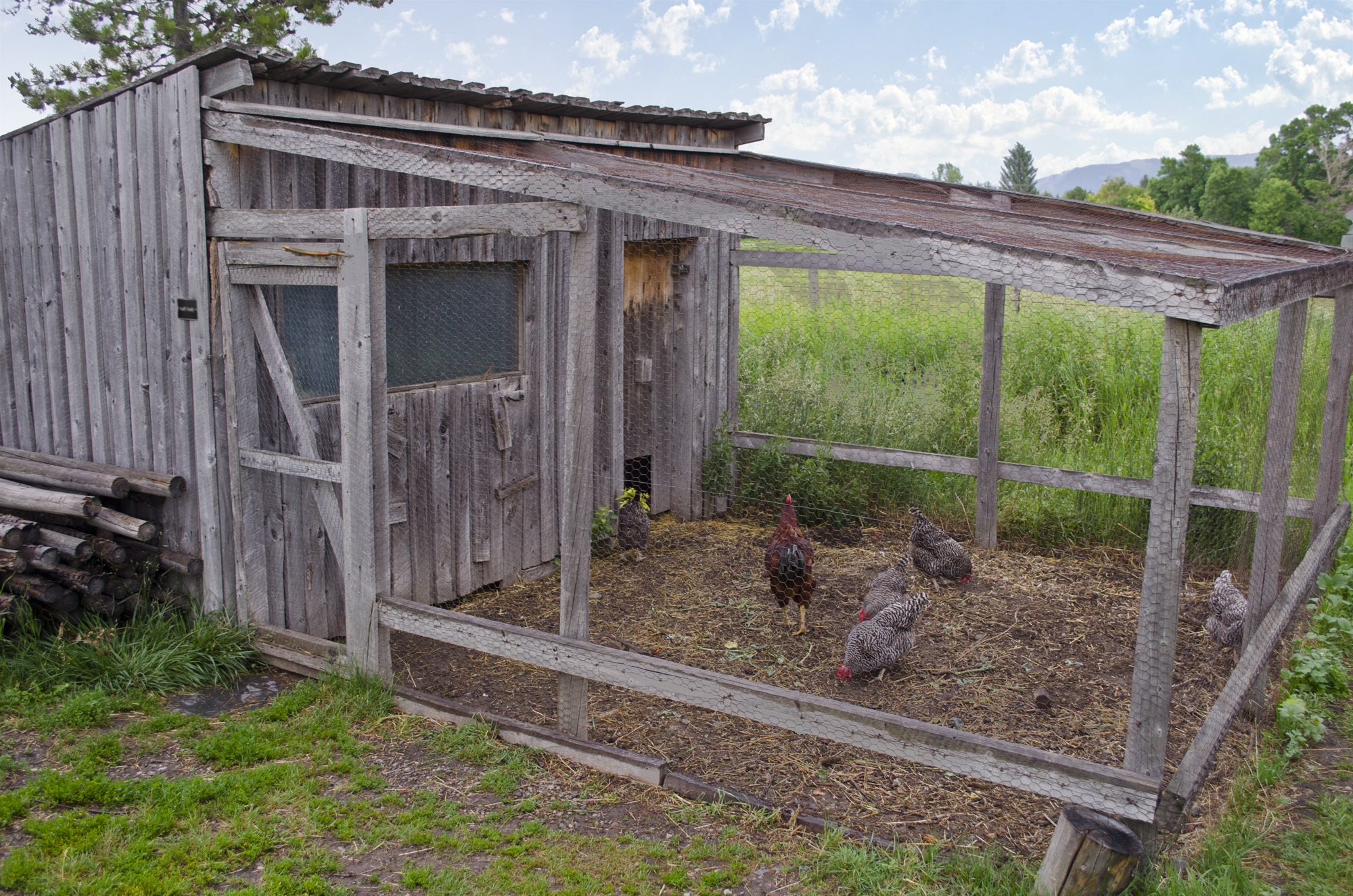 Chicken coop on the grounds of the Tinsley Living Farm at the Museum of the Rockies in Bozeman, Montana. The house was constructed in 1889 by William and Lucy (Nave) Tinsley. William Tinsley worked for Wells Fargo and migrated to Montana in 1864. Lucy was a dressmaker who emigrated to Virginia City, Montana, the same year. Both were originally from Missouri. They met in Virginia City, married in 1867, and relocated to Willow Creek in the Gallatin Valley (about 40 miles west of Bozeman). They built a homestead log cabin (about the size of the current blacksmith shop), and lived there until 1889. Their first child was born in 1868, and by 1889 they had eight kids. William Tinsley built the family a two-story home out of logs taken from the nearby Tobacco Root Mountains. The oldest children helped haul the logs, which took two days to get to the homestead. The structure took two years to construct. Most of the items in the house were ordered from the Sears catalog. The family occupied the house until the 1920s. The house was purchased by the museum in 1987, and moved from its original location to the Museum of the Rockies in 1989. Refurbished with items donated by Tinsley descendants, it now serves as a living history museum. The house sits on 10 acres of land, and includes a historically accurate kitchen garden, flower garden, chicken coop, farm implements, carriage house, blacksmith shop, root cellar, outhouse, functioning well and pump, storage shed, and fields. A full cellar was excavated beneath Tinsley House as well. Visitors are free to touch and use many of the items in Tinsley House. A staff of historical re-enactors includes four women who cook, clean, sew, and perform chores around the house as well as a blacksmith who does ironmongery and repairs.